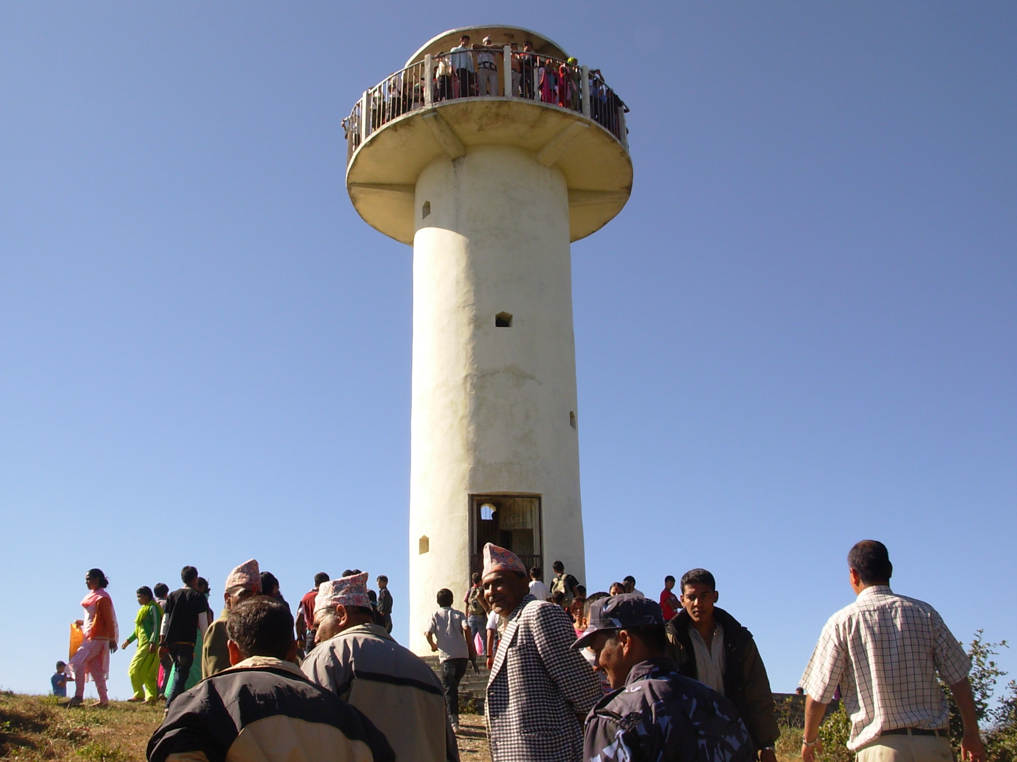 A shrine in Gulmi district in Nepal.